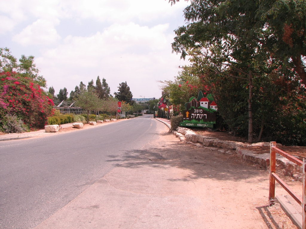 Welcome sign. Rinatia moshav, Israel.